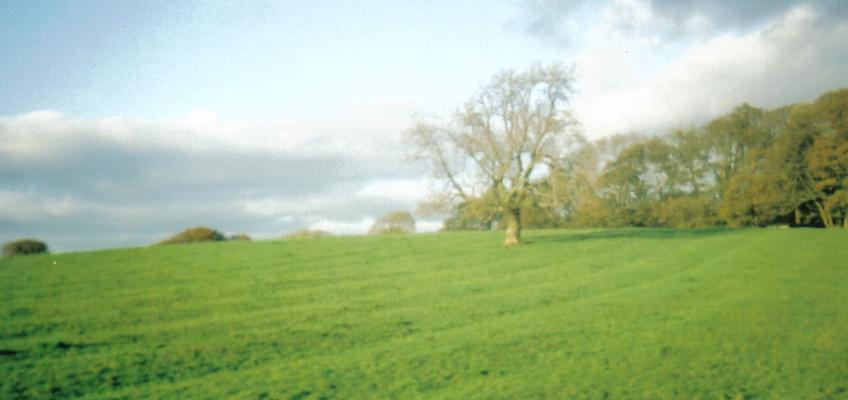 The rig and furrow marks in Buchans field at Wester Kittochside Farm near Glasgow